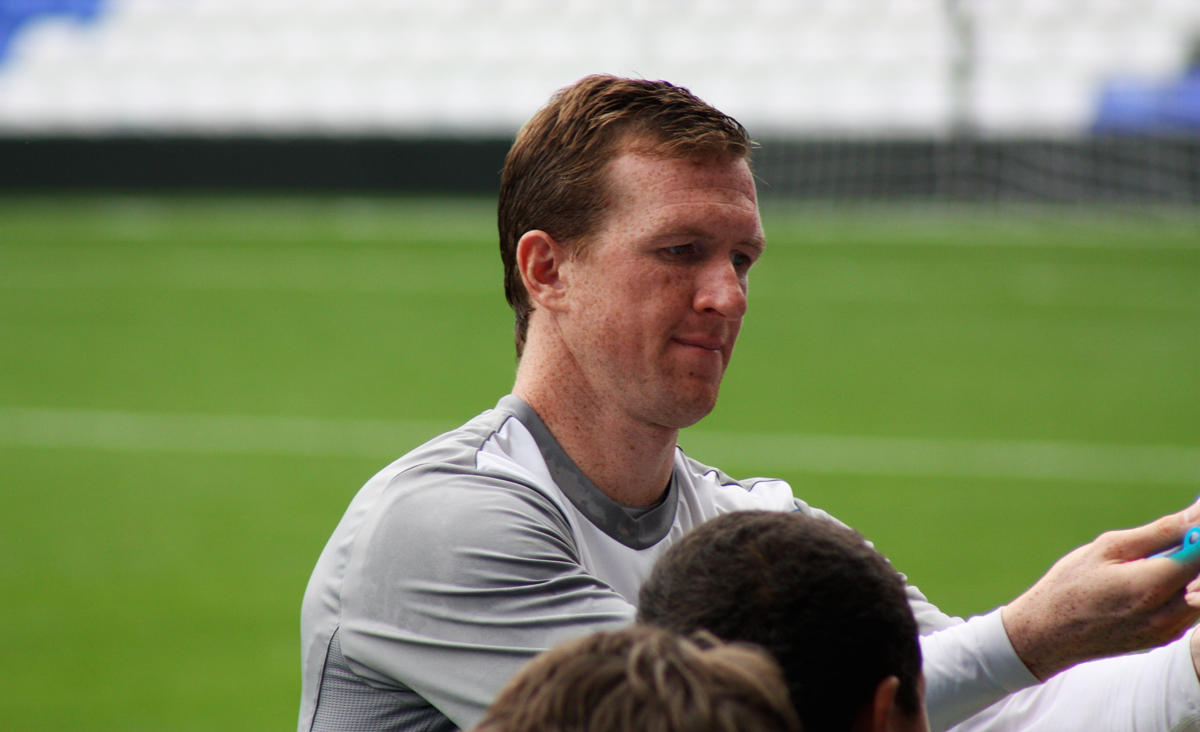 Steven Caldwell at Birmingham City open training session at St.Andrews' Stadium.